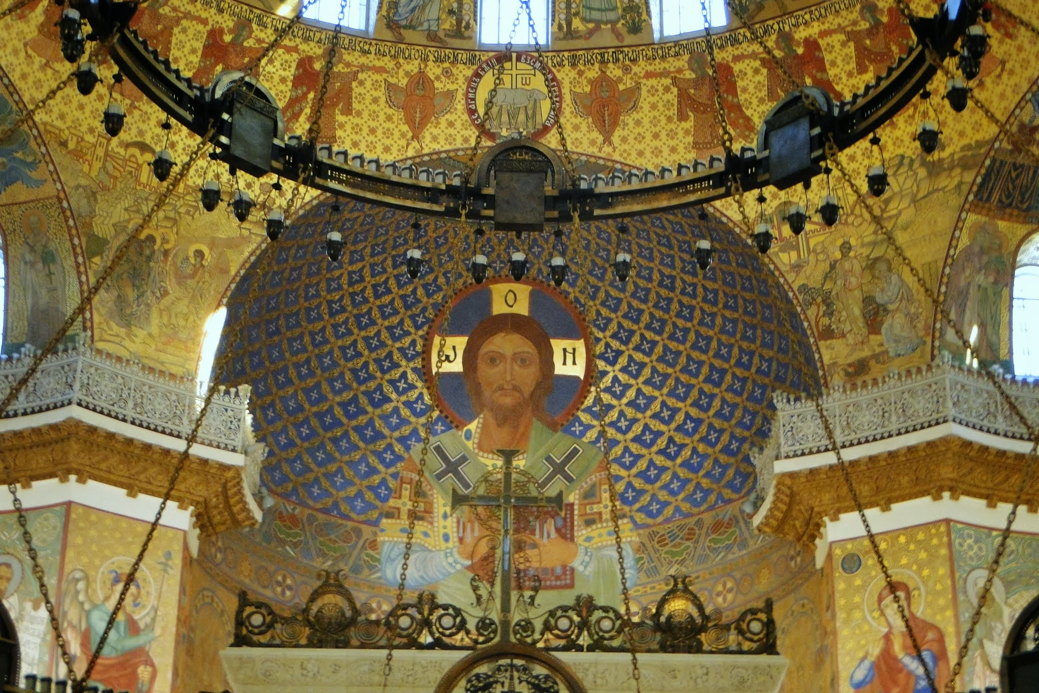 Naval Cathedral in Kronstadt